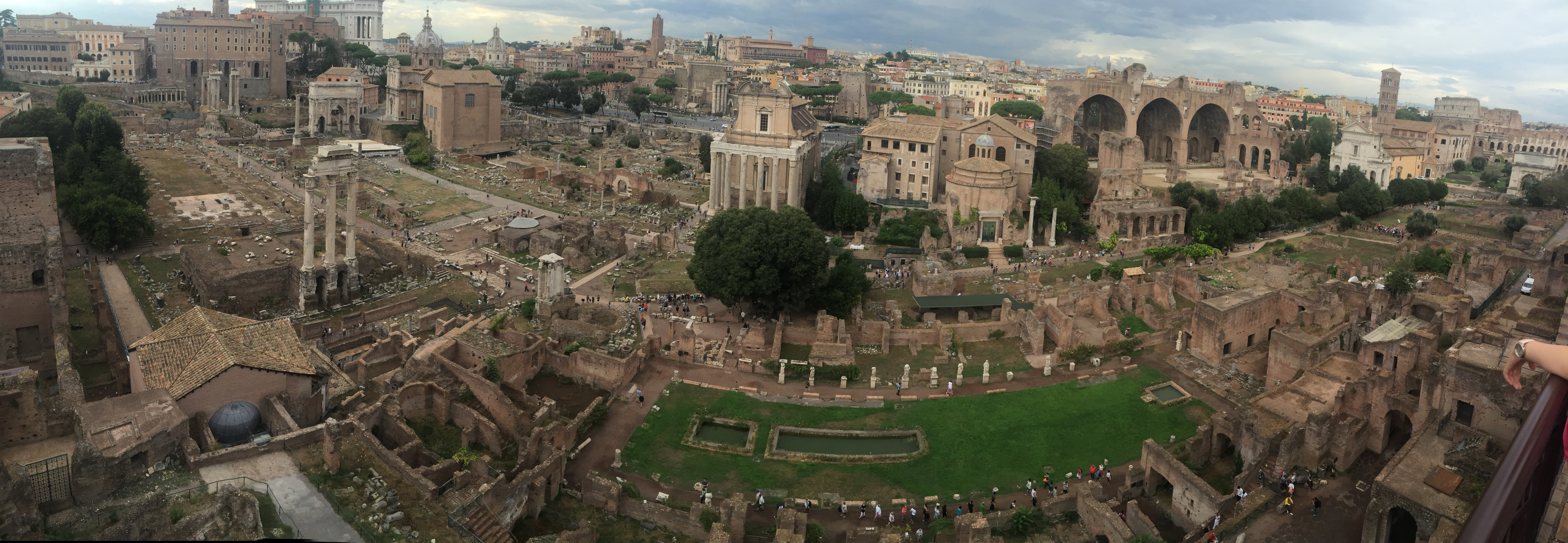 View of the Roman Forum from Palatine Hill with the Arco de Settimio Severo to the west (left) and the Colosseum to the east (right).